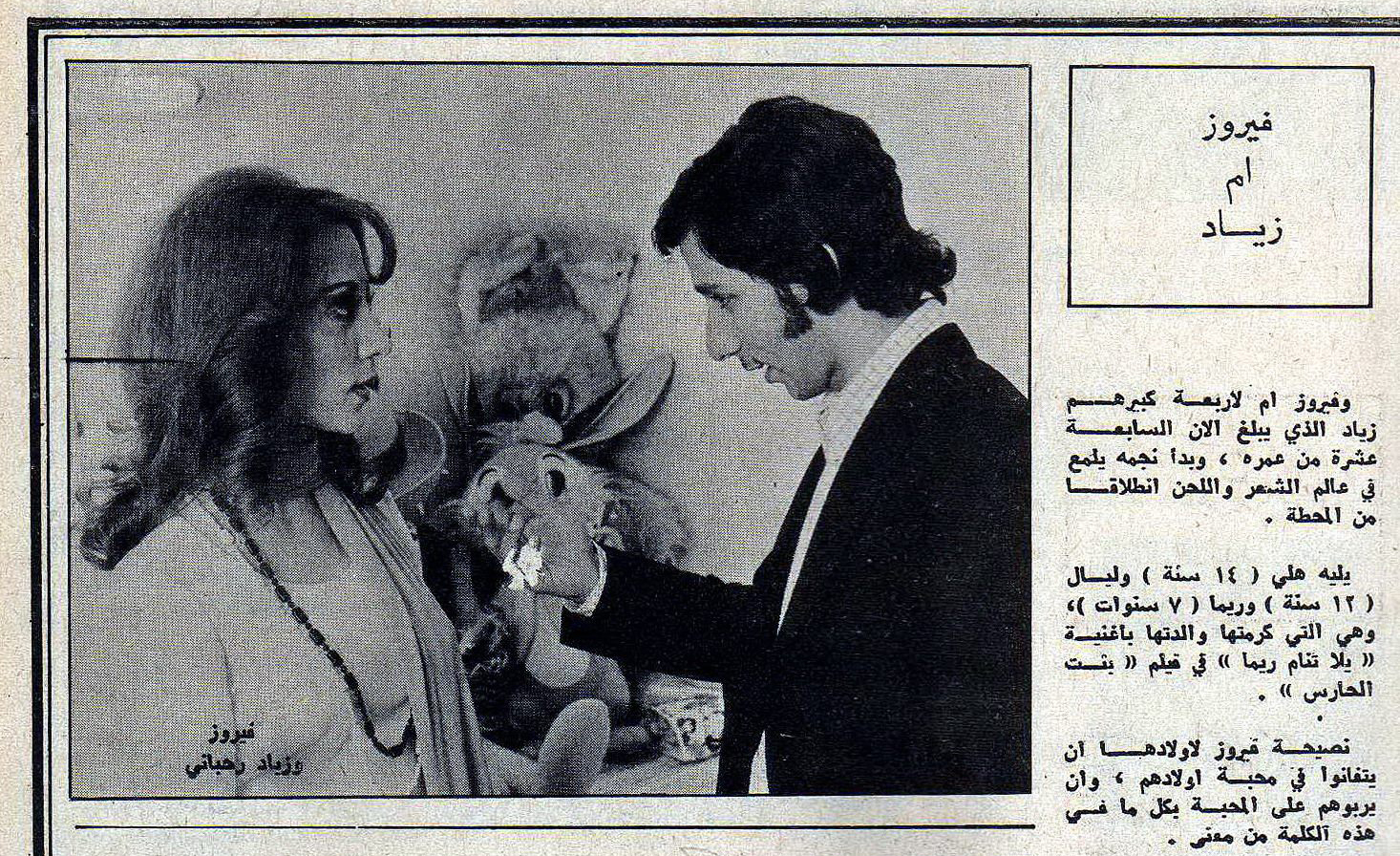 Ziad Rahbani